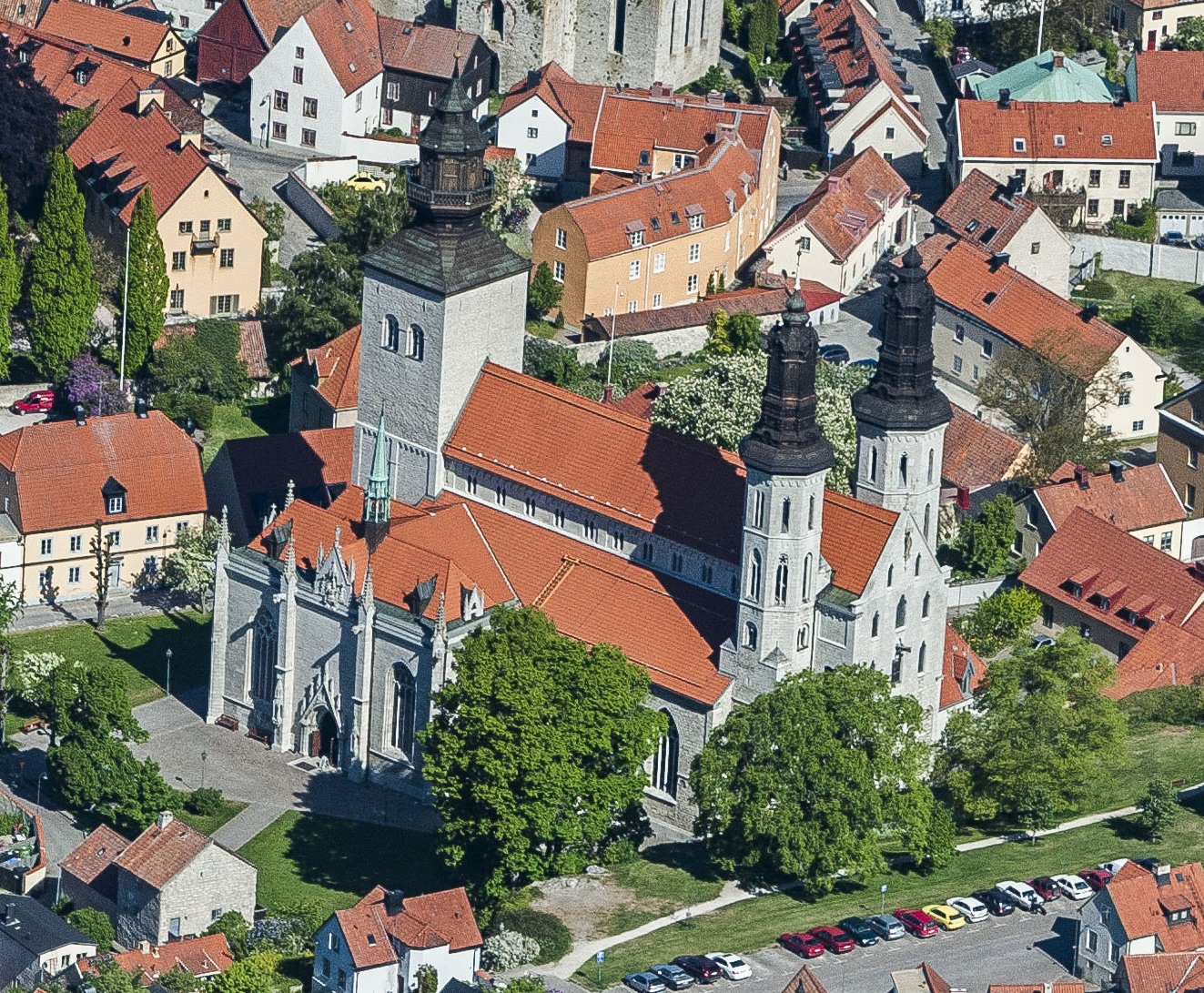 Visby Cathedral